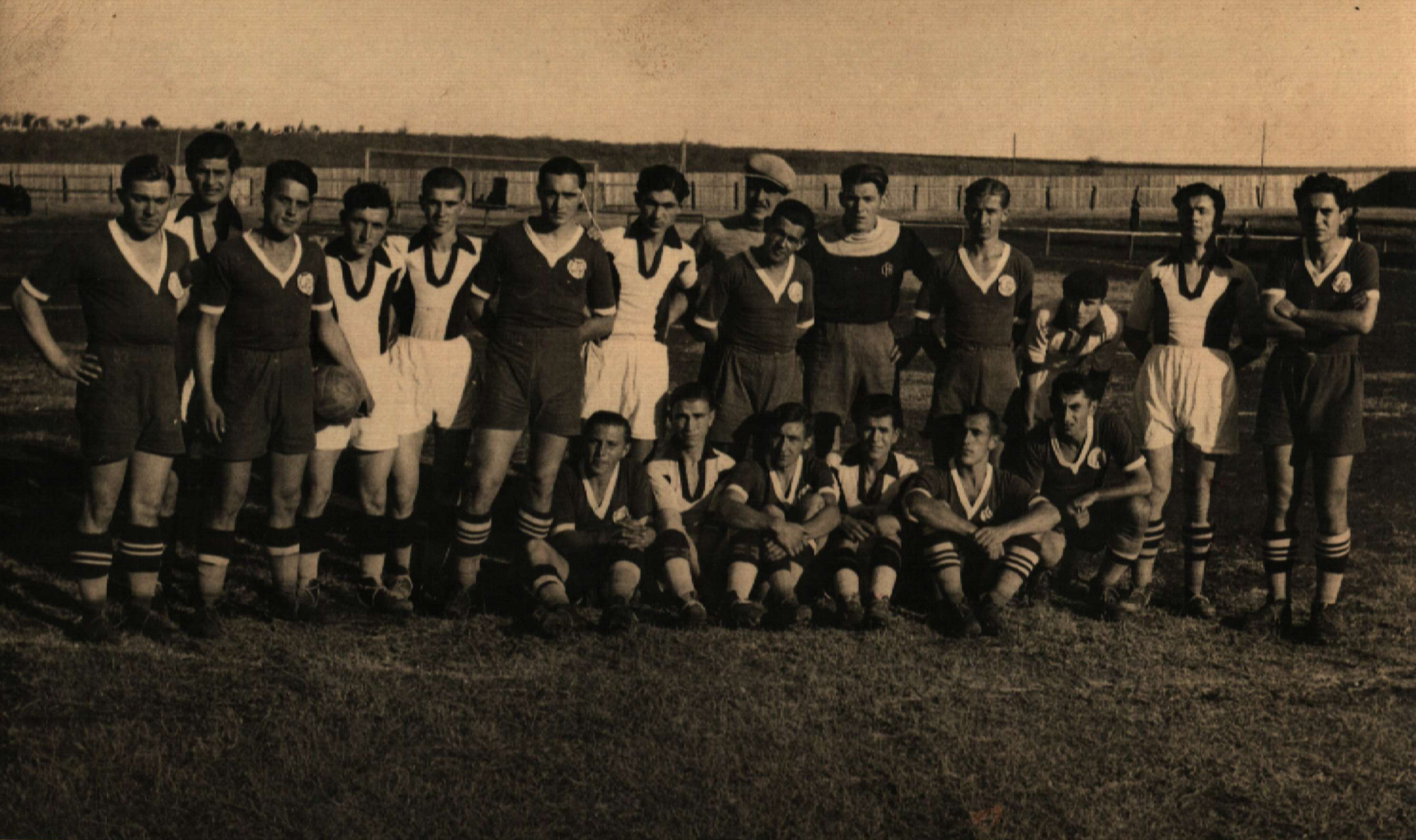 Football Club Gloria Dobrich, 11.10.1936